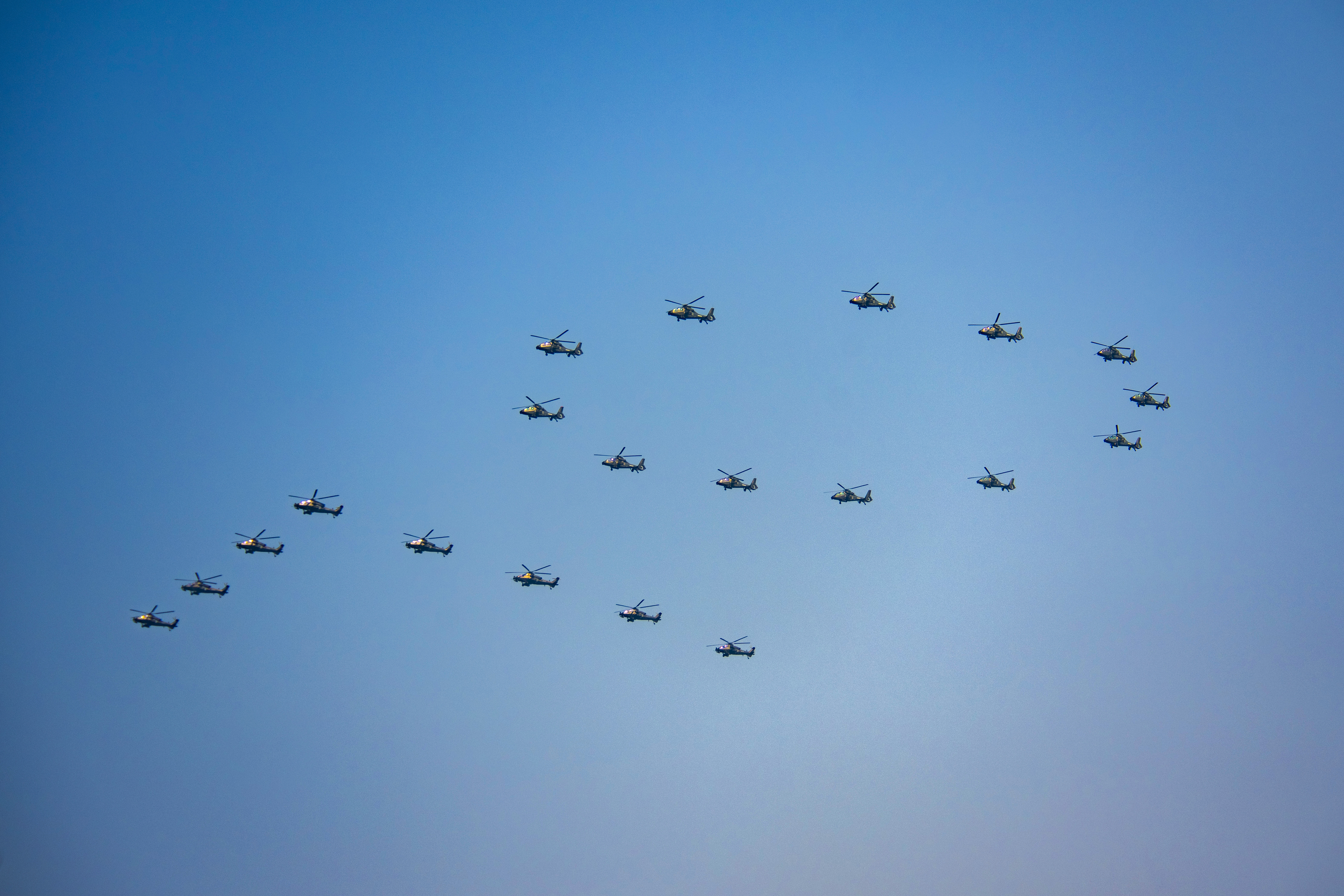 8 Z-10s formed "7", and 12 Z-19s formed "0".